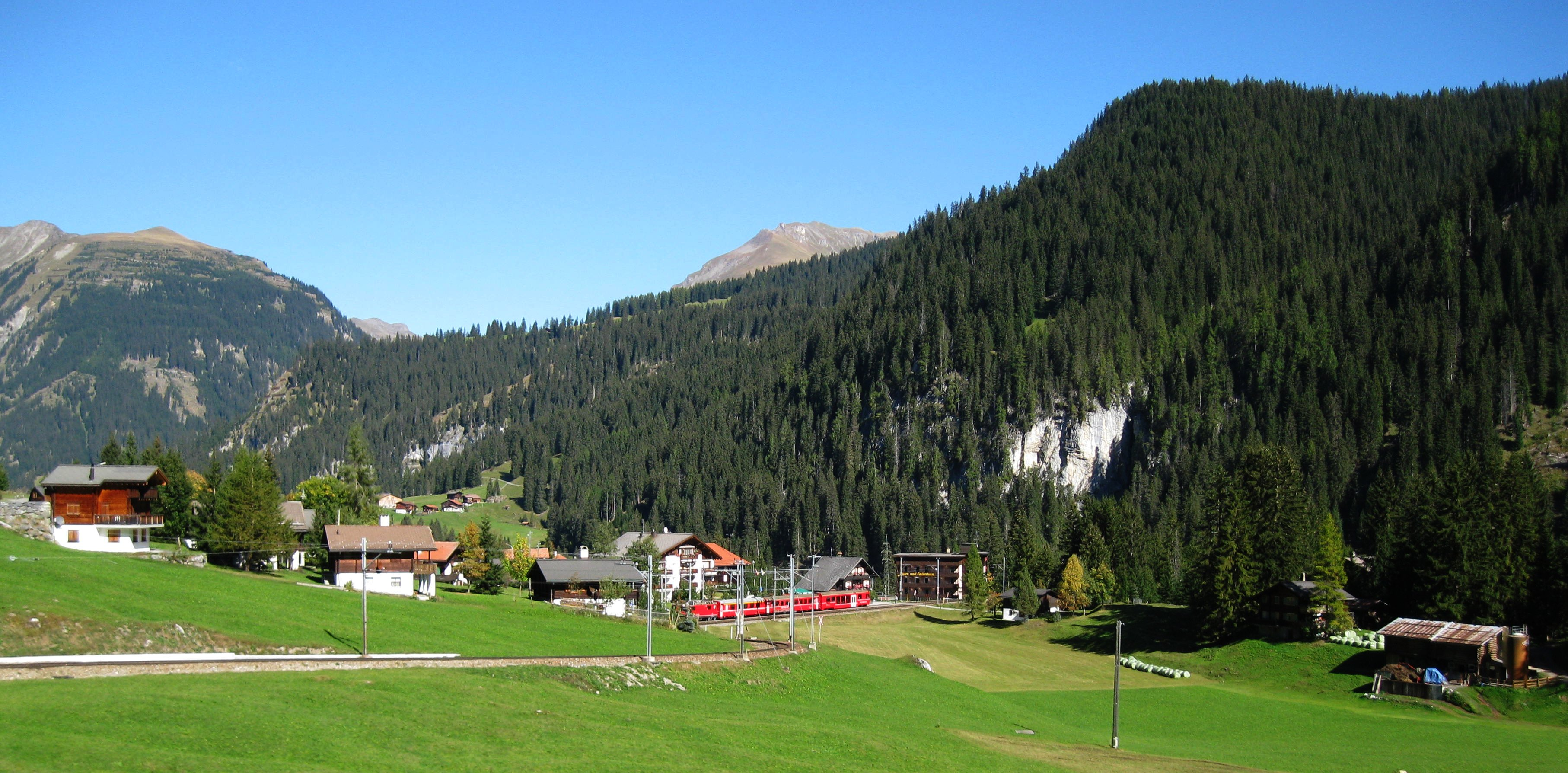 train in litzirüti - langwies